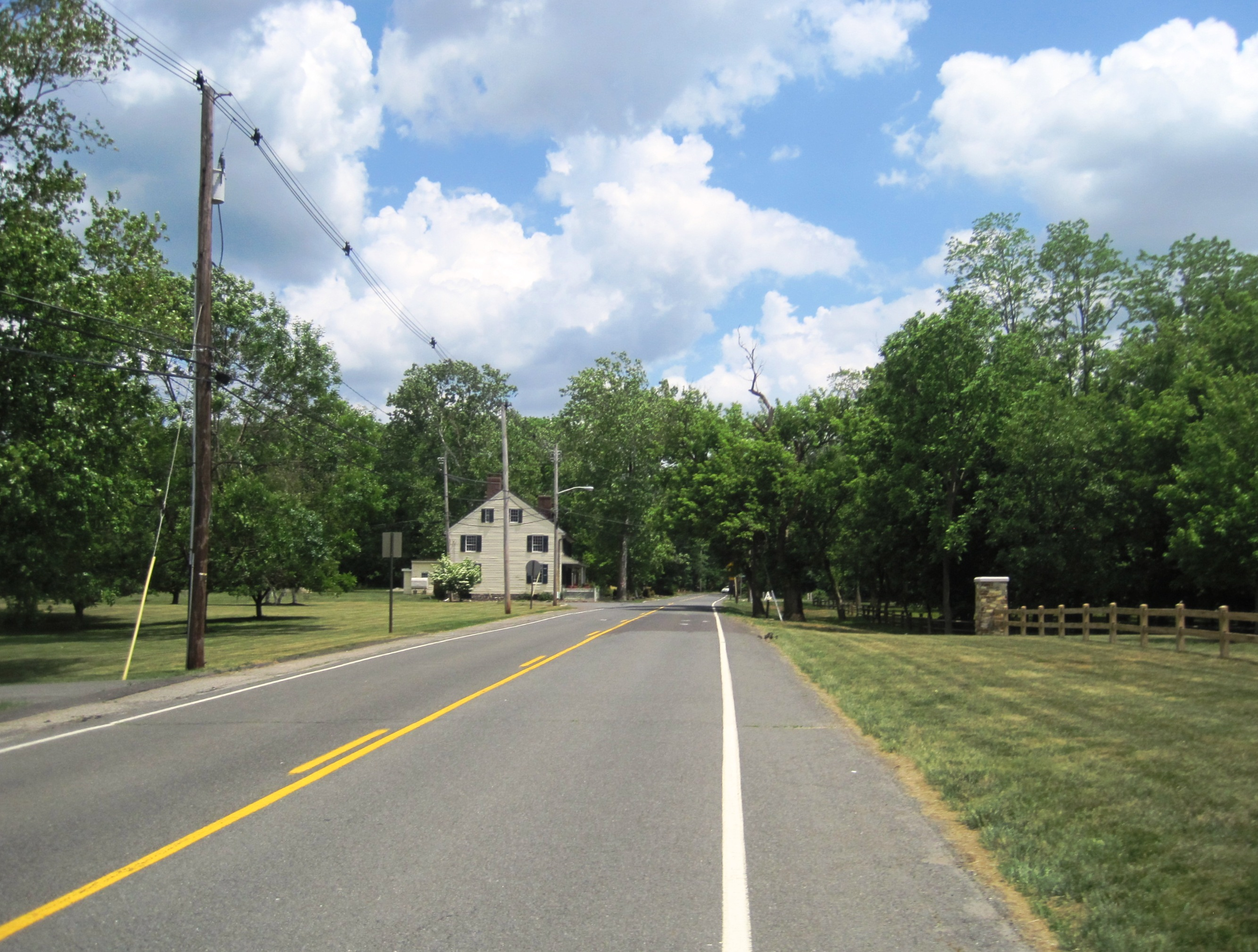 Photo of the unincorporated community of Arneytown, New Jersey within North Hanover Township, Burlington County and Upper Freehold Township, Monmouth County. Photo taken on eastbound County Route 664 approaching Province Line Road in North Hanover